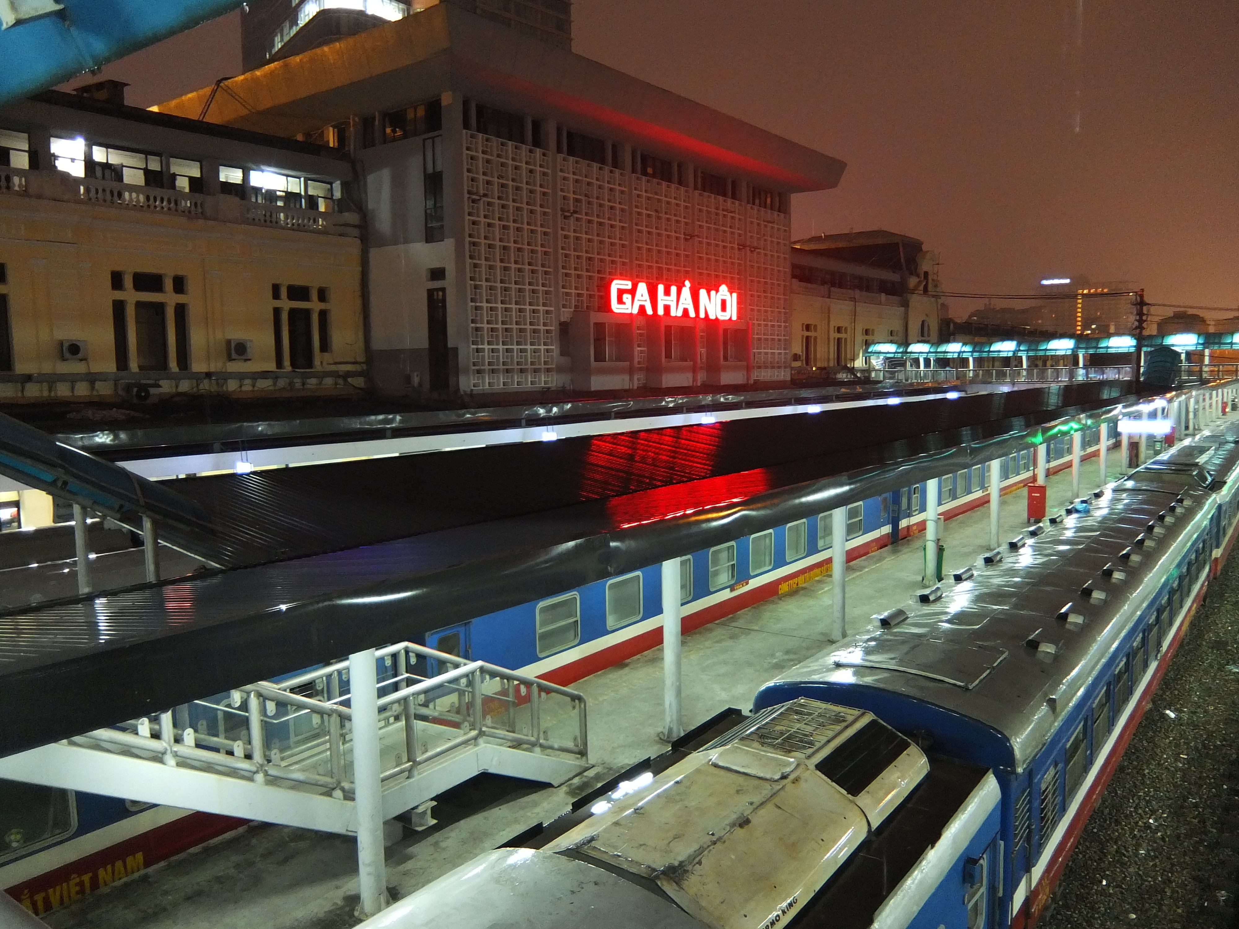 Bless my kind tour agent, and now my friend, Hien Thai had been following my other photo albums and had see my love for trains. She arranged a special trip to Hanoi's main train station so that I could ogle at them first hand. It started pouring like crazy the moment we entered the station, but we got under the shed before that. So here then is a view of Hanoi train station taken from the foot over bridge which spans across the platforms. More notes in the next caption. (Hanoi, Vietnam, Oct./ Nov. 2016)